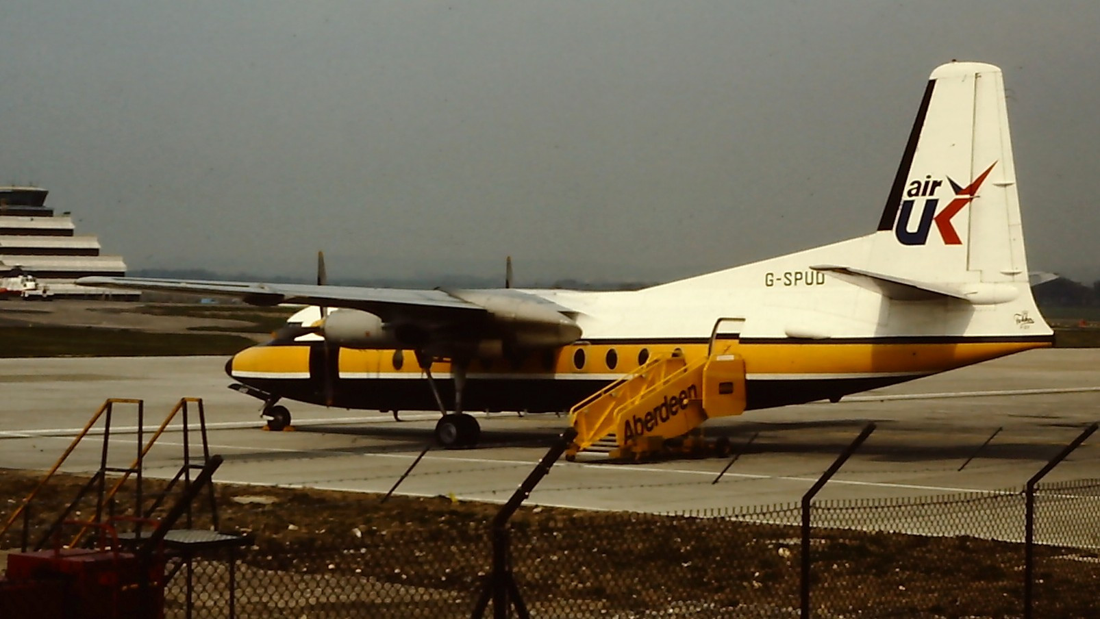 A 1959-built Fokker F27-100 registered in the United Kingdom as "G-SPUD", it is operating for Air UK at Aberdeen Airport, Scotland in 1981. Air UK was formed the year before and other than the tail the aircraft is still in the colours of Air Anglia